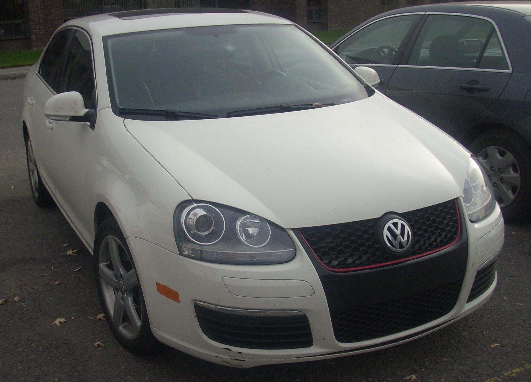 2005-present Volkswagen Jetta photographed in Montreal, Quebec, Canada.